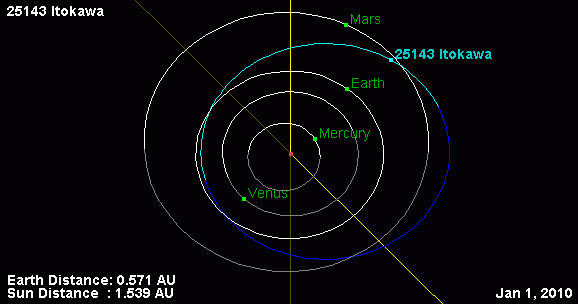 Position of 25143 Itokawa asteroid